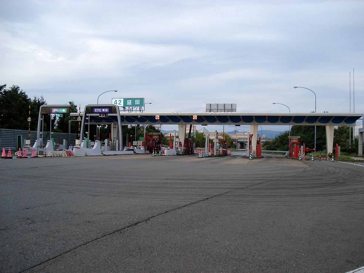 This Interchange, Morioka Interchange, is on Tohoku Expressway, in Morioka city, Iwate Prefecture, Japan.